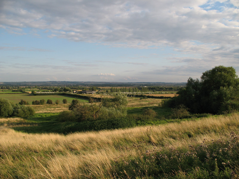 Earthworks showing the remains of the abandoned village of Clopton in Cambridgeshire, England